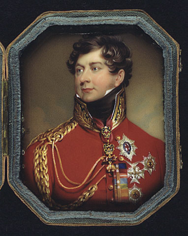 Title / Titre : Prince Regent, Future George IV / Prince régent, futur George IV Creator(s) / Créateur(s) : Henry Bone (1755-1834) Date(s) : August 1815 / août 1815 Reference No. / Numéro de référence : MIKAN 2837212 / C-095758 Credit / Mention de source : Library and Archives Canada, C-095758 / Bibliothèque et Archives Canada, C-095758 Description / Descriptions : Although called by some the "first gentleman of Europe" for his gracious manner, the future George IV (1762-1830) was in reality the antithesis to this, as one of Britain's more notorious and unpopular monarchs. The eldest son of King George III and Queen Charlotte, before ascending to the British throne in 1820, he had squandered large sums of money and had been involved in many scandals. The artist of this work was made Principal Painter to the Prince in 1800, and one year later, Principal Enamel Painter to George III, a post he retained under both George IV and William IV. An inscription with this miniature states that it was painted after an original portrait by Sir Thomas Lawrence, court painter to the King. The artist's works on ivory are rare, although it is known that he produced large quantities of enamels, mostly copies, for general sale. / Même s'il fut appelé par certains le « premier gentilhomme d'Europe » en raison de ses manières agréables, le futur George IV (1762-1830) était en réalité tout le contraire; il fut l’un des monarques britanniques les plus impopulaires et les plus tristement célèbres. Fils aîné du roi George III et de la reine Charlotte, il avait gaspillé de fortes sommes d'argent avant de monter sur le trône en 1820, et avait été impliqué dans de nombreux scandales. Une inscription sur cette miniature indique qu'elle fut peinte d'après un portrait original exécuté par sir Thomas Lawrence, peintre de la cour du roi.